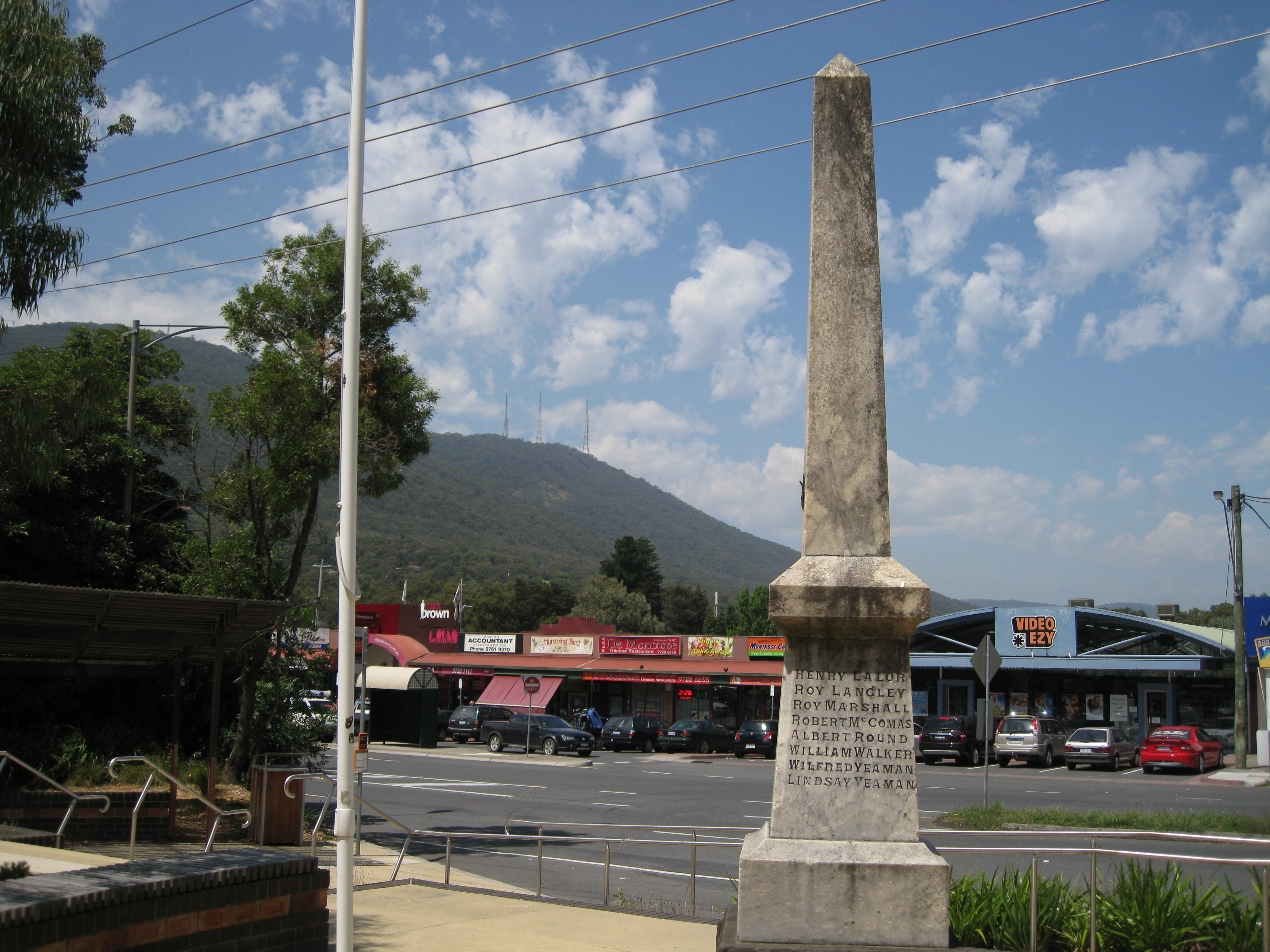 Centre of the Eastern Melbourne Suburb of Montrose